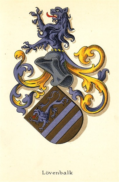 Coat of arms of the Løvenbalk family